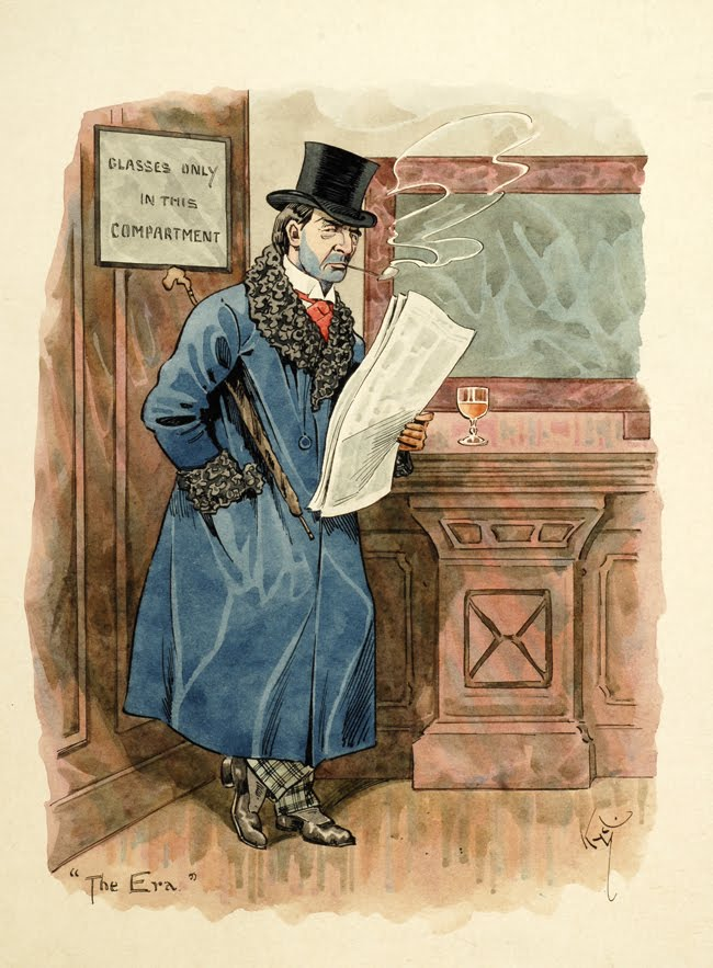 Joseph Clayton Clark AReader of The Era